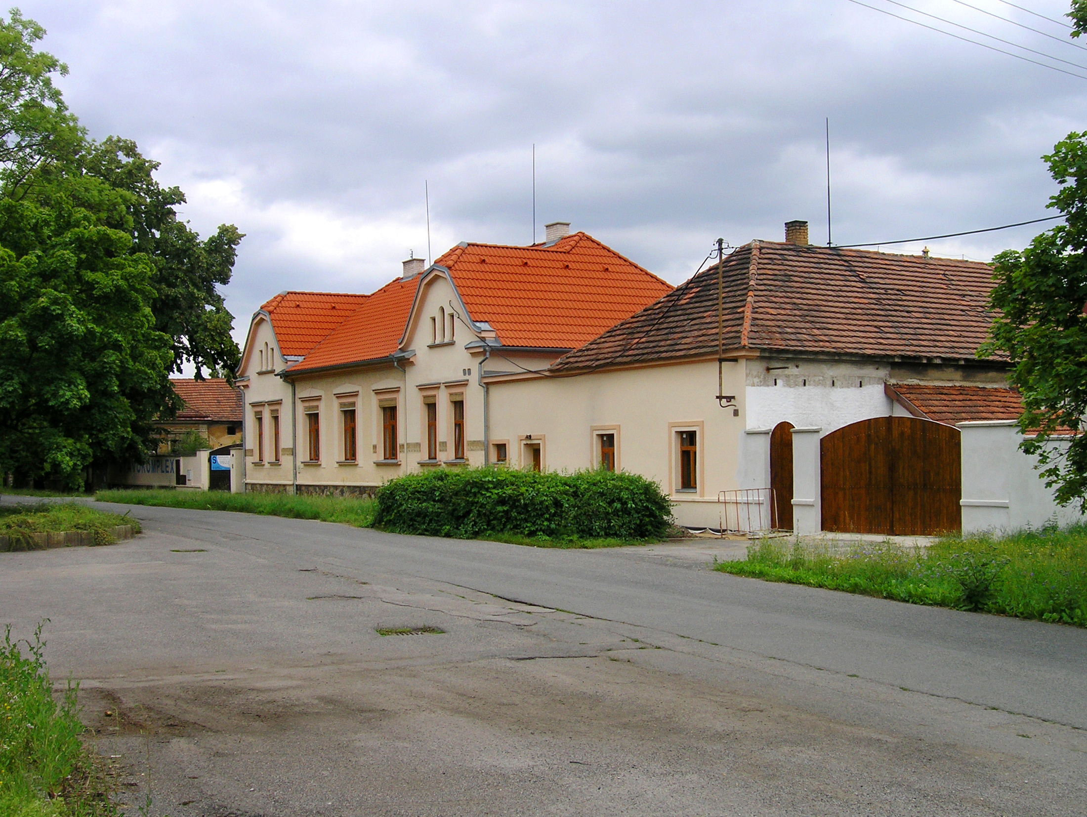 Former farm in Chrášťany, Czech Republic